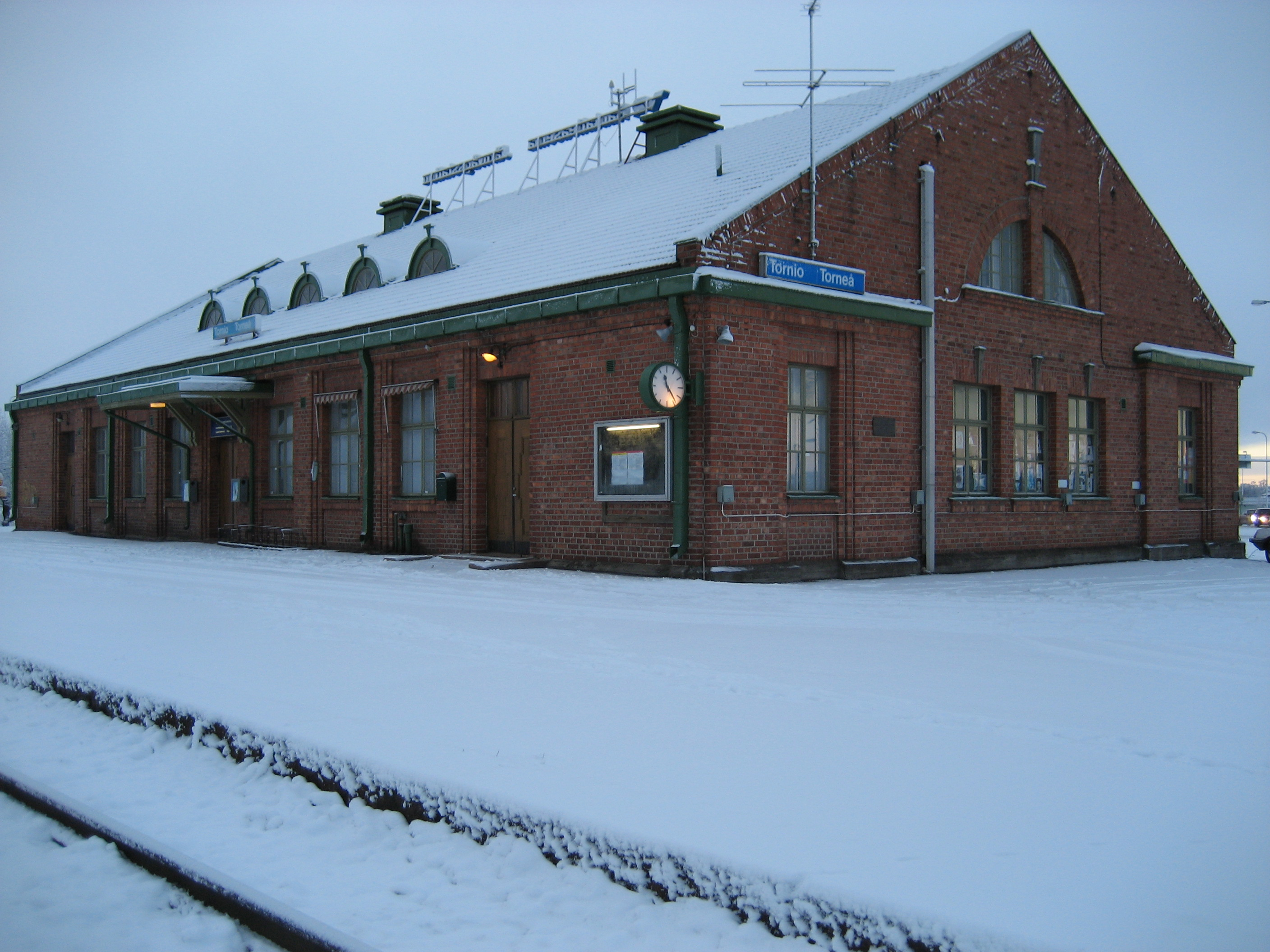 Tornio railway station in Tornio, Finland, in 2006.